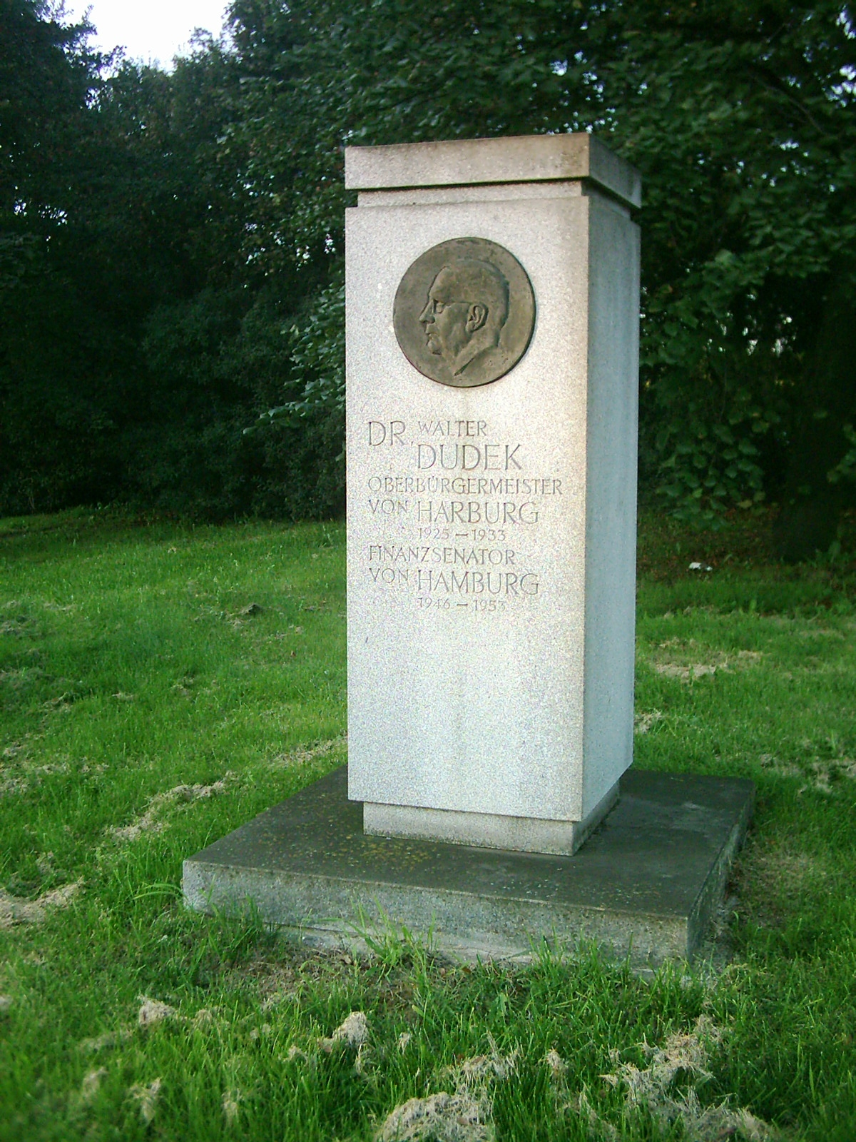 Memorial Walter Dudek (1890-1976, german politician).